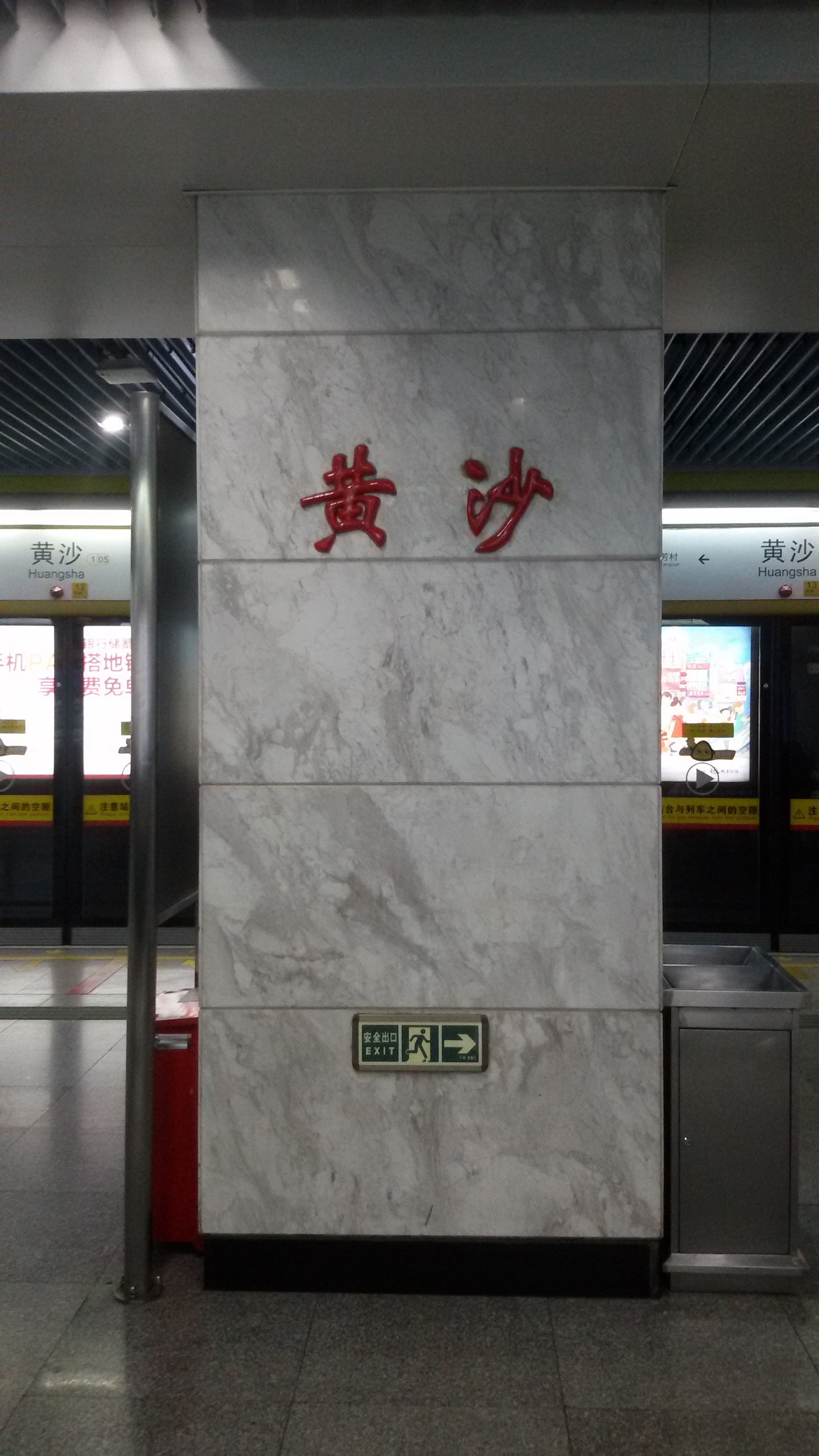 WORD on PILLAR for Huangsha Station in Line 1